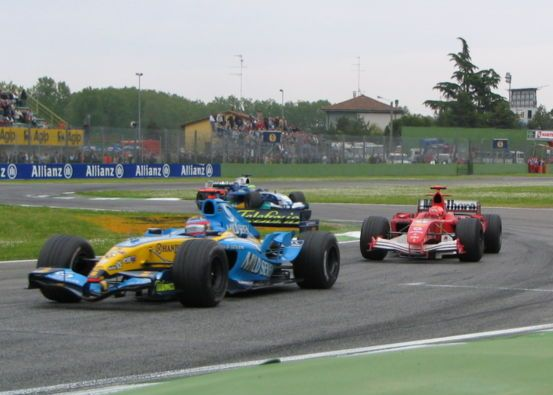 Fernando Alonso and Michael Schumacher battle for the lead of the 2005 San Marino Grand Prix. Felipe Massa's Sauber is also pictured behind Alonso and Schumacher.